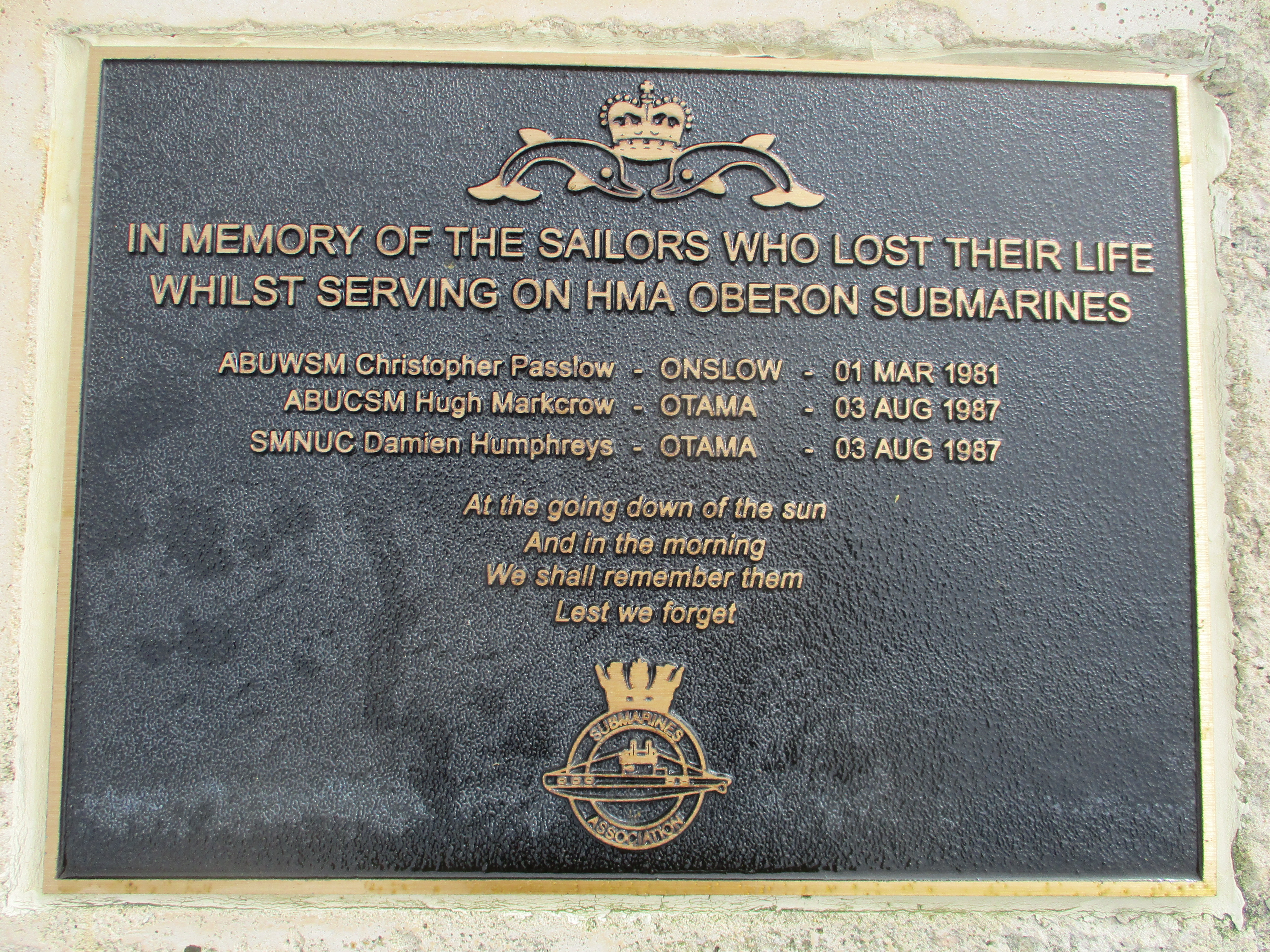 Oberon class submarines memorial, Rockingham, Western Australia. This plaque commemorates three sailors who lost their lives on the Oberon submarines, Christopher Passlow, Hugh Markcrow and Damien Humphreys.